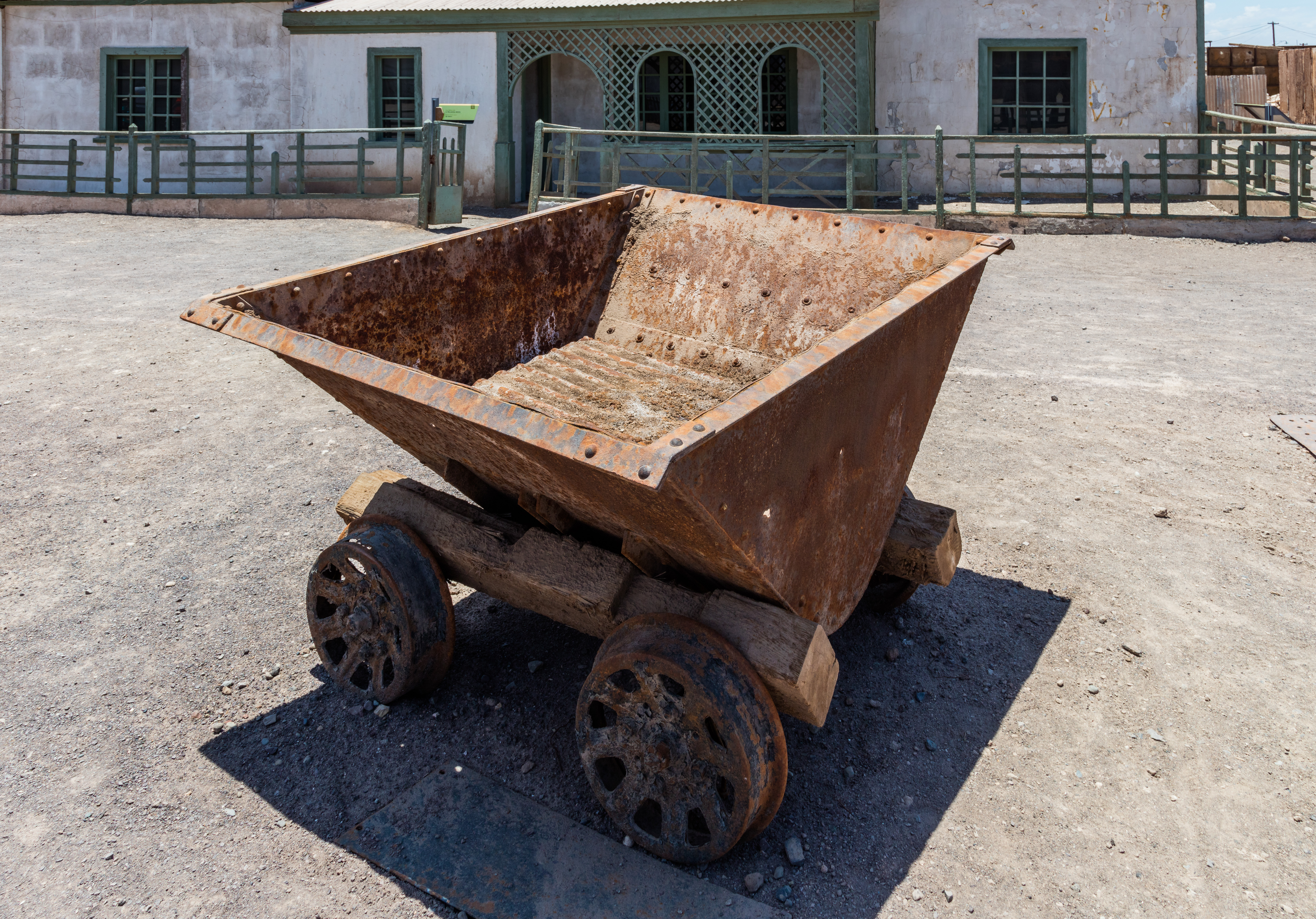 Mining railway rolling stock, Humberstone and Santa Laura Saltpeter Office, Chile